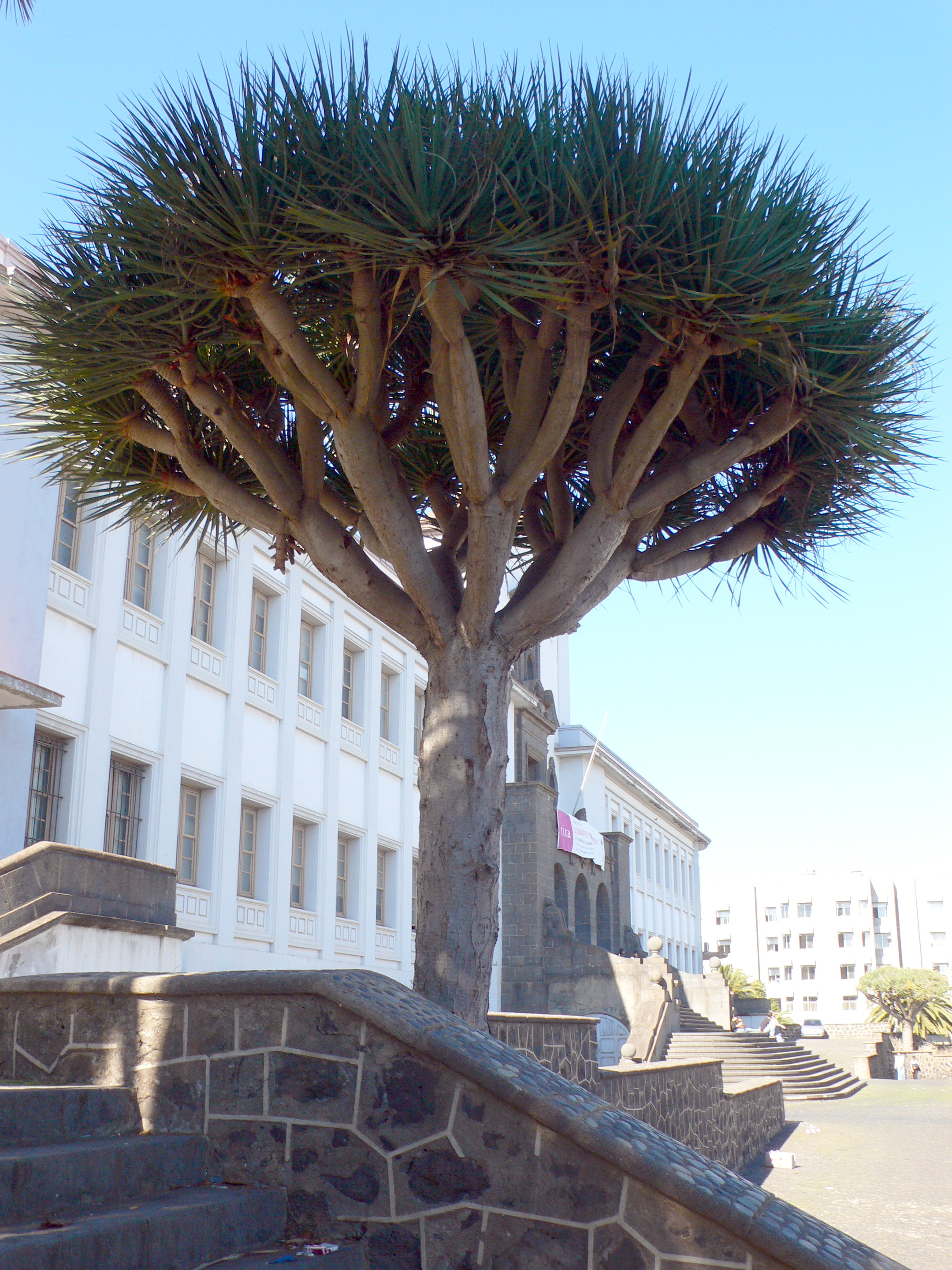 Drago tree, Dracaena draco, on the left side of the central building of the University of La Laguna (Teneriffe, Canary Islands)